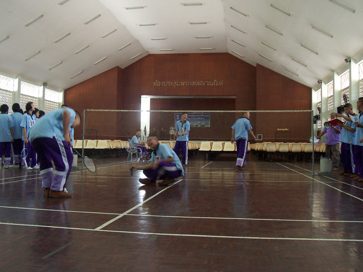 Students learning/playing badminton - Nakhon Sawan school, Nakhon Sawan ,Thailand ห้องประชุมพระเทพญาณโมลี โรงเรียนนครสวรรค์